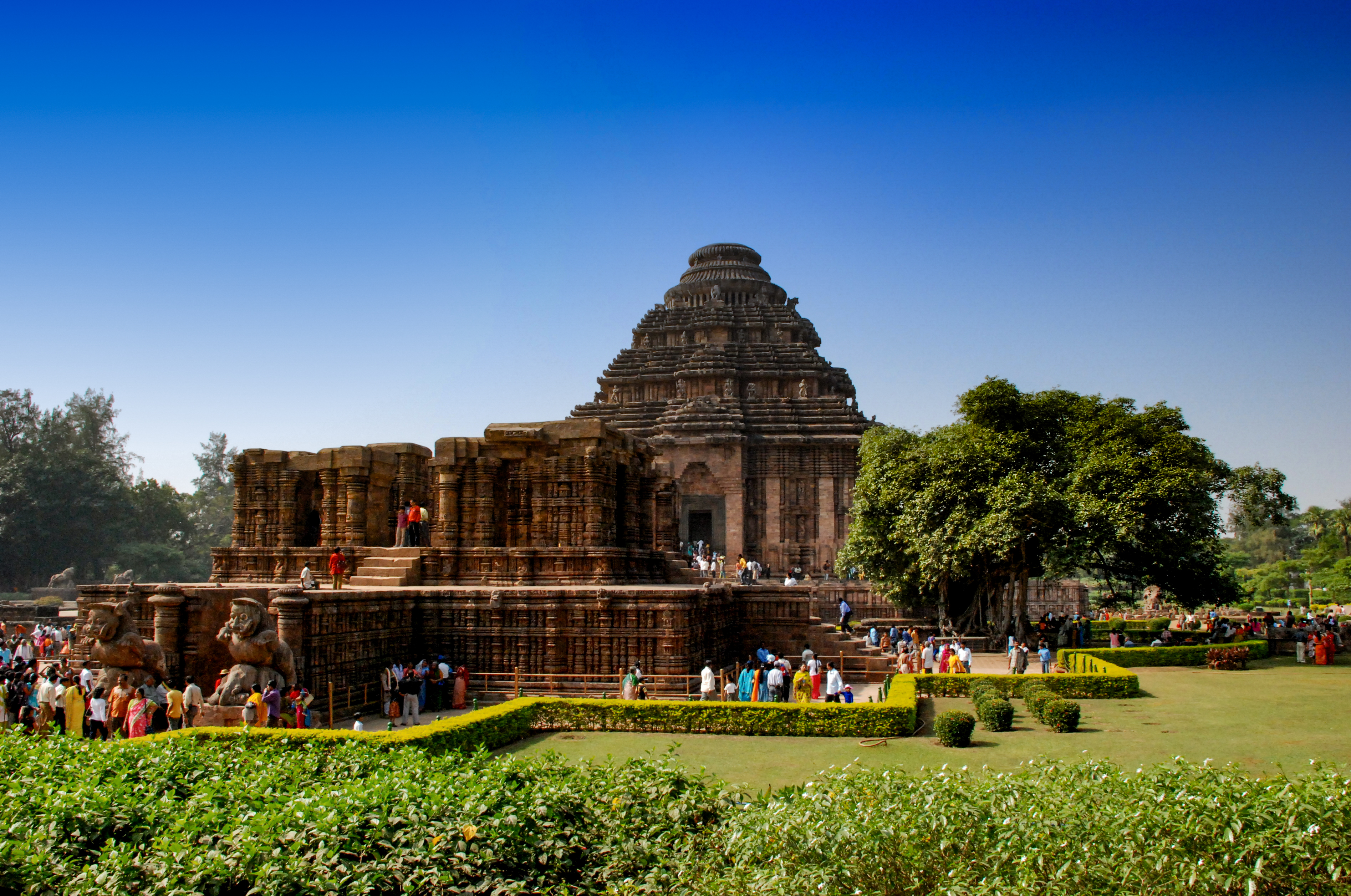 Konark